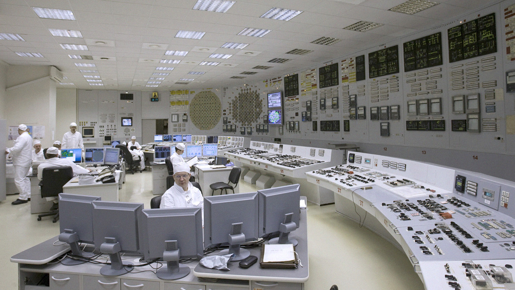 “Leningrad nuclear power plant”. The main control panel at the Leningrad nuclear power plant in Sosnovy Bor.